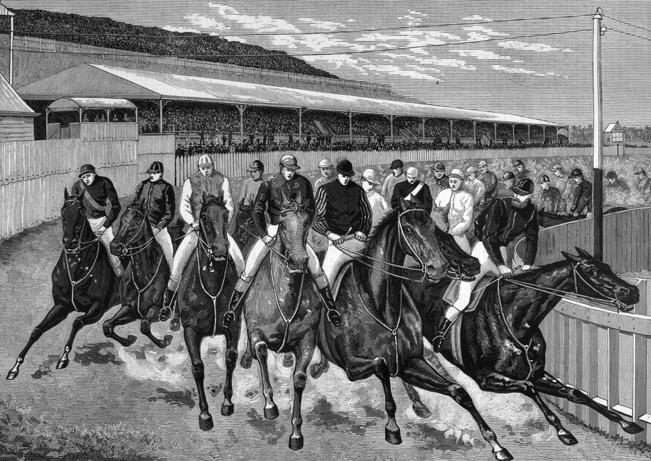 Race horses rounding a turn in the 1883 Melbourne Cup, Flemington.